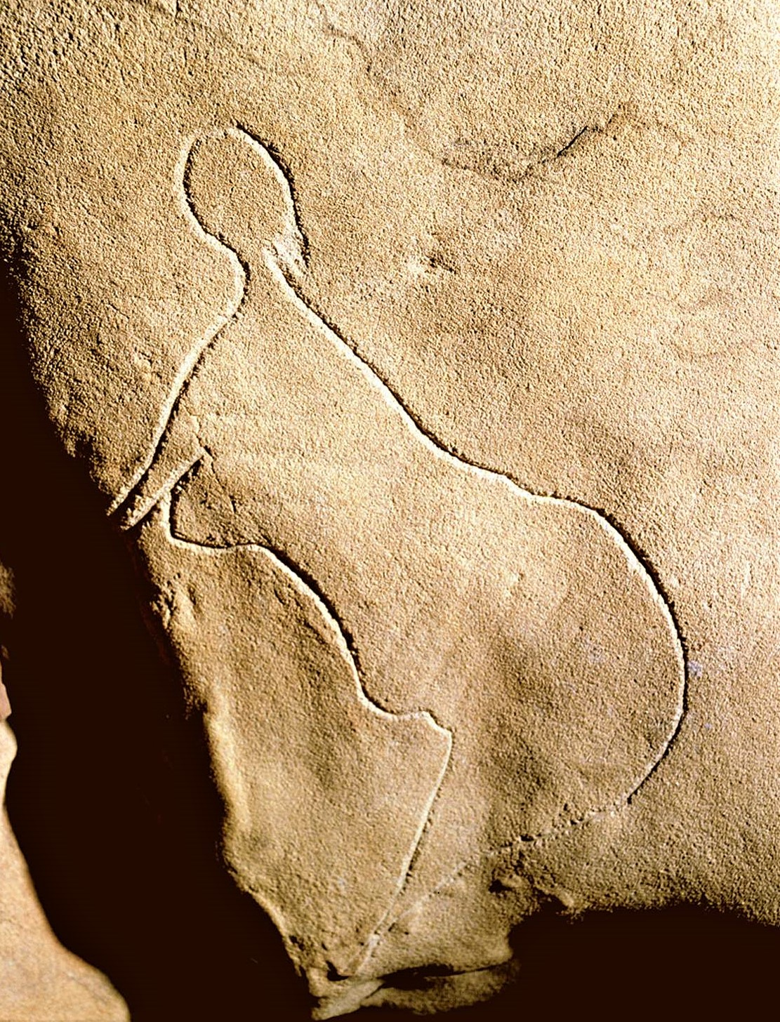 Cussac Cave Engraving